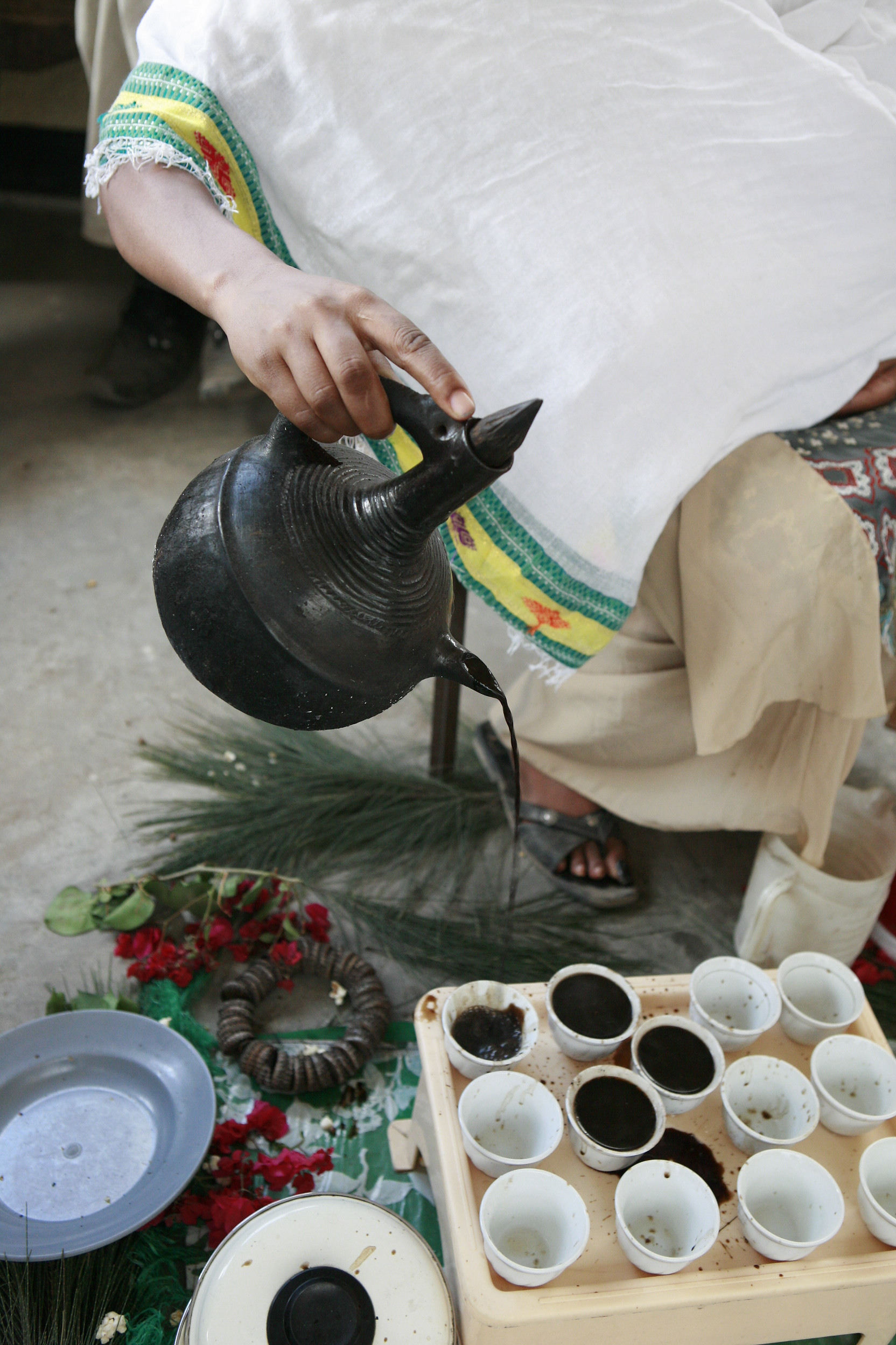 Ethiopian Coffee Ceremony